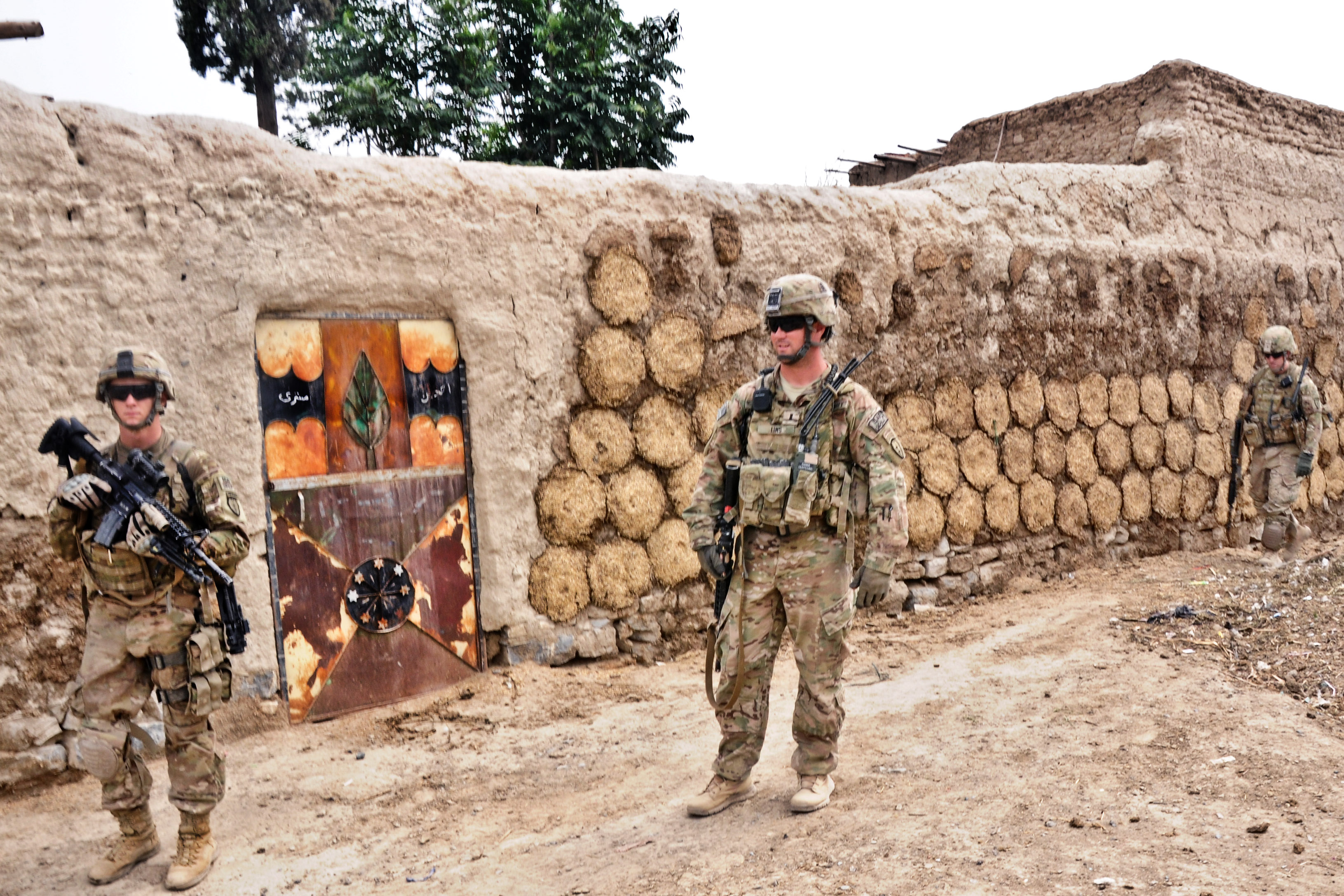 U.S. paratroopers conduct a security patrol outside a qalat covered in caked and dried cow dung in the village of Kunday in Afghanistan's Khowst province, July 7, 2012.